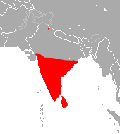 Schneider's Leaf-nosed Bat (Hipposideros speoris) range